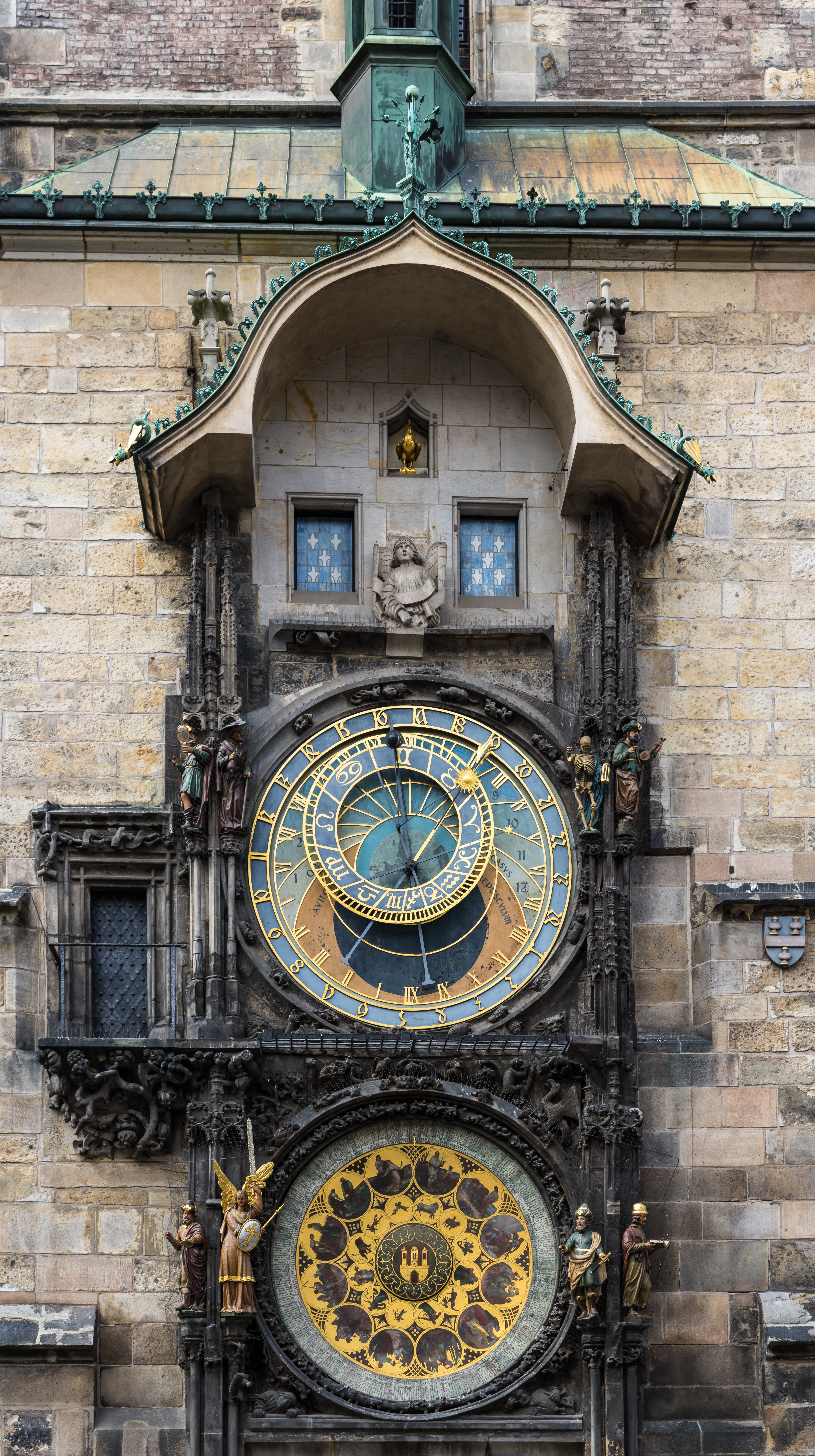 Astronomical clock (in Czech Pražský orloj) at the Old Town Hall (Staroměstská radnice) in Prague, Czech Republic